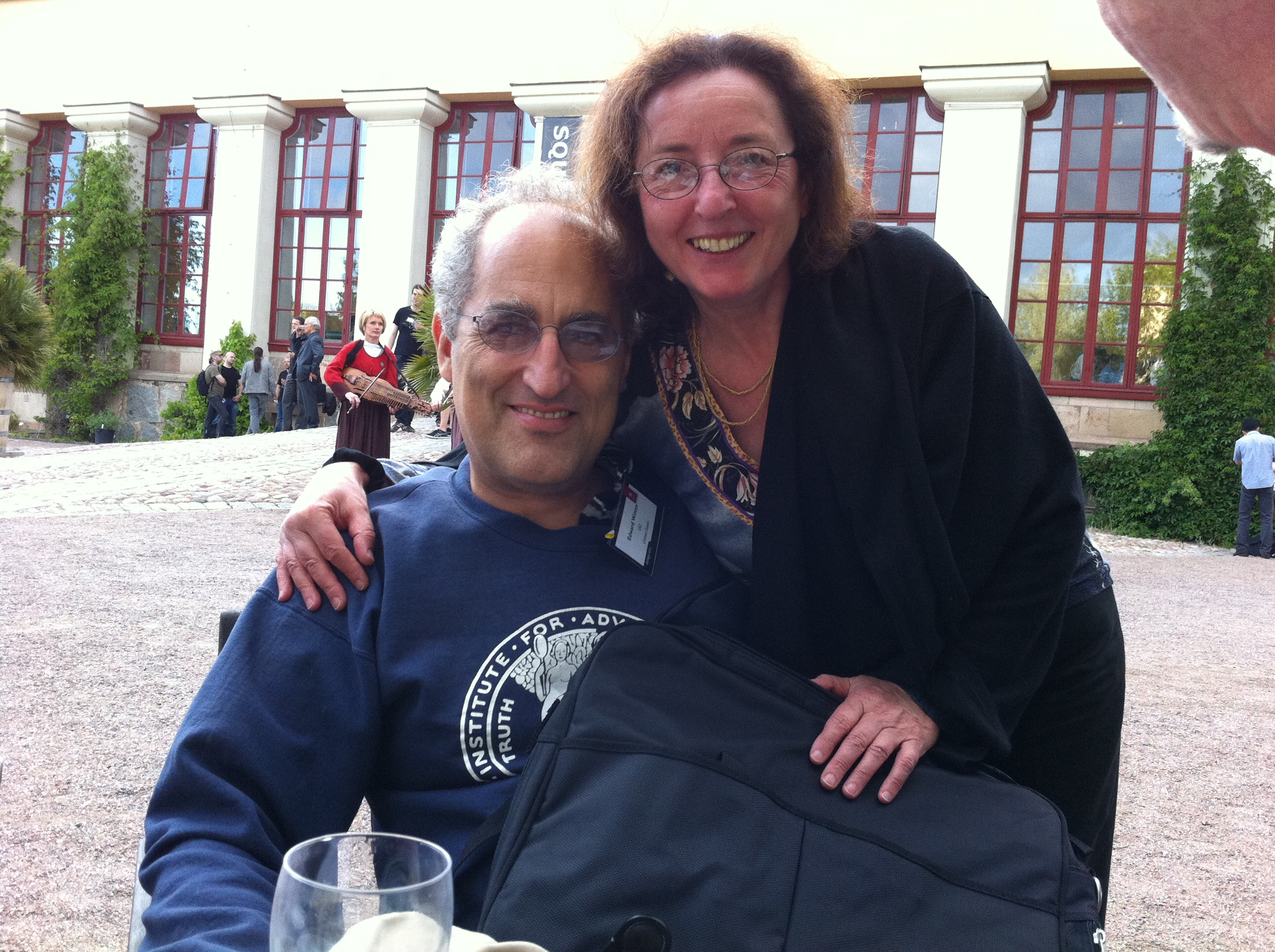 Physicsts Ed Witten and Chiara Nappi at a string theory conference in Uppsala, Sweden, June 27, 2011.